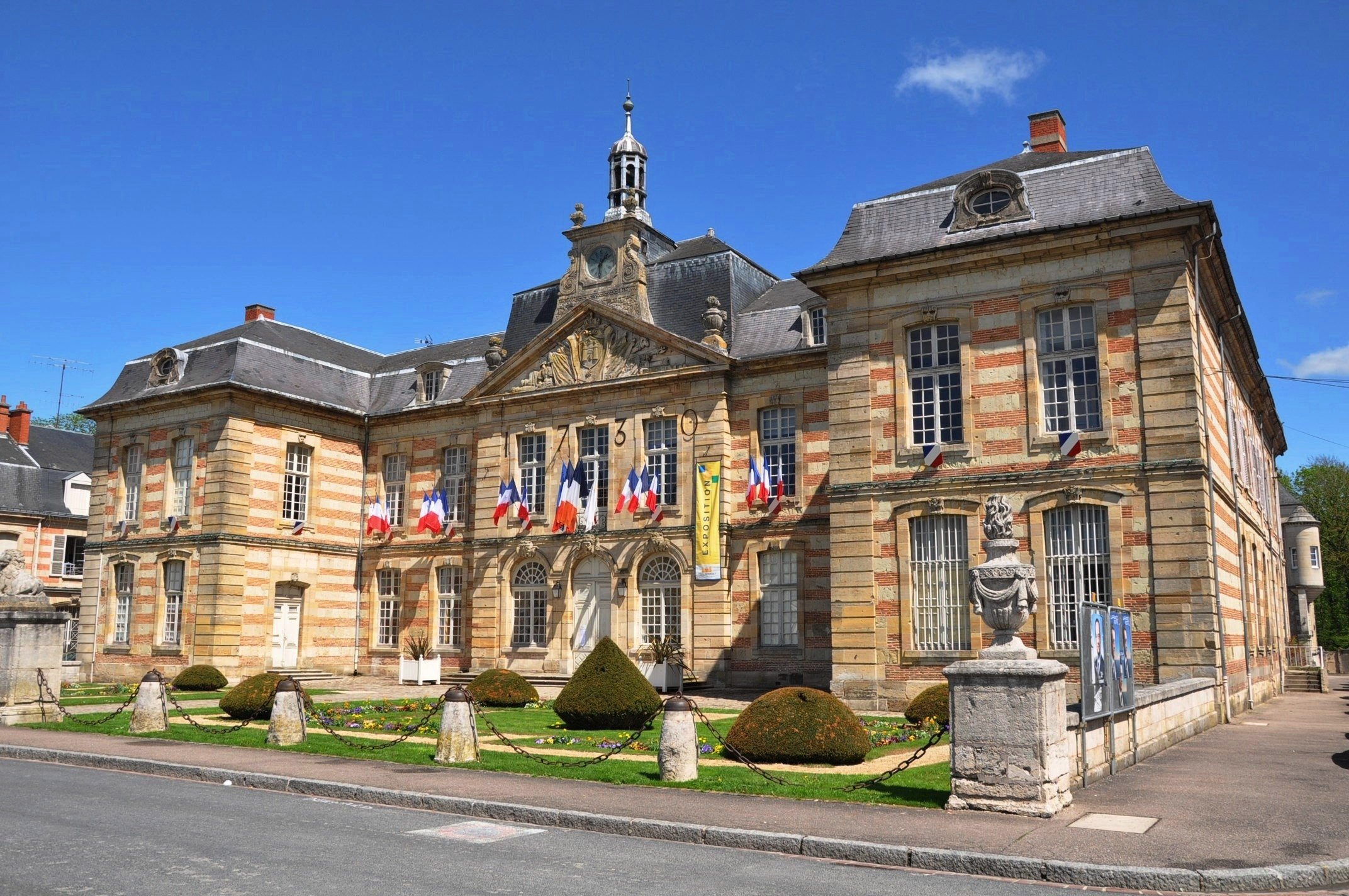 Town hall of Sainte-Ménéhould (Marne, France).